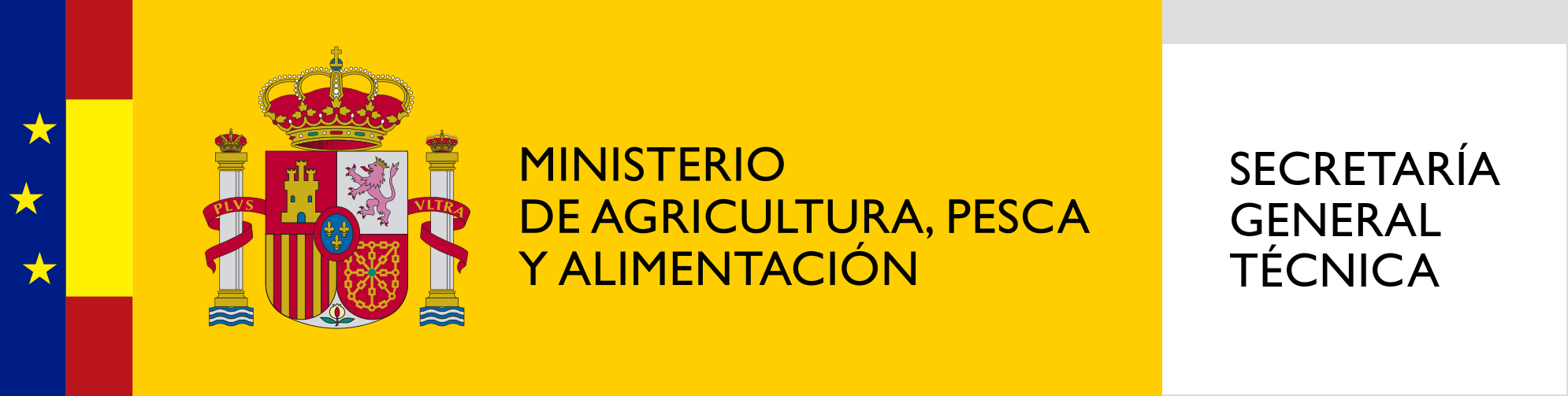 Logotipo de la Secretaría General Técnica del Ministerio de Agricultura, Pesca y Alimentación de España